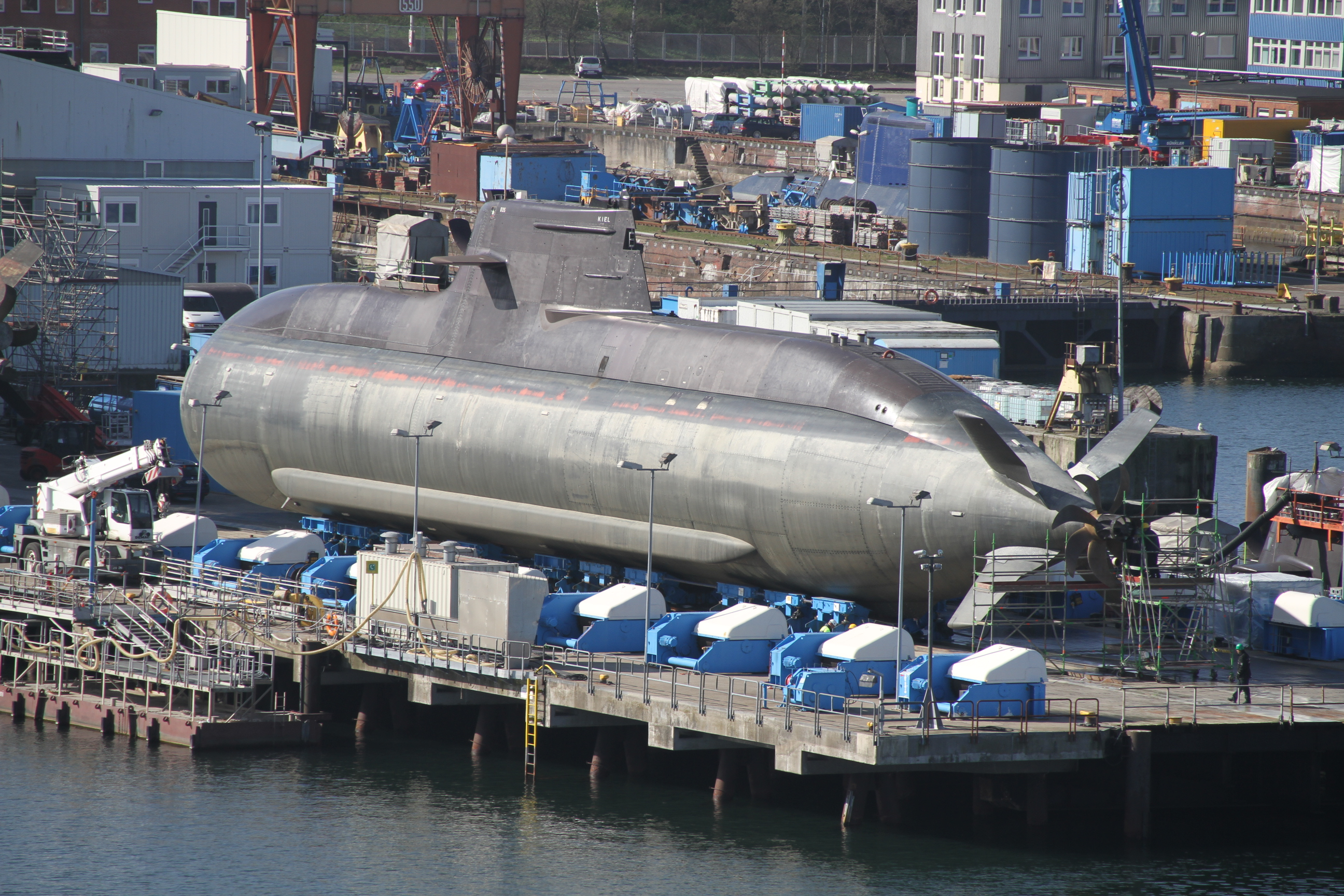 Image of the U35, a german type 212A submarine, at HDW shipyard, a major naval shipyard in tge city of Kiel - north Germany, which is an important constructor of submarines of NATO.